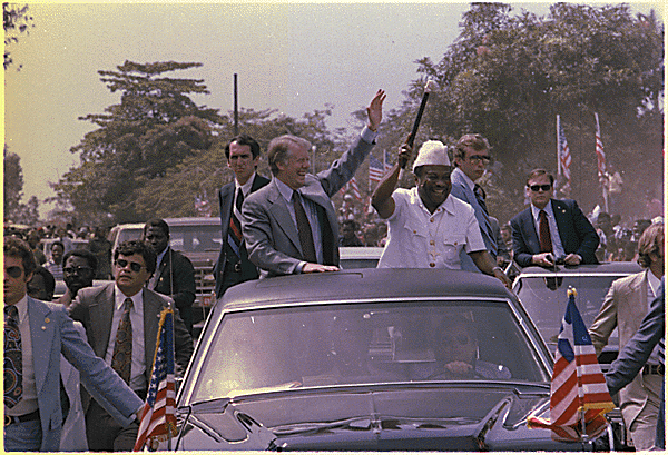 Jimmy Carter and President William Tolbert of Liberia wave from their motorcade during a visit to Monrovia, Liberia.